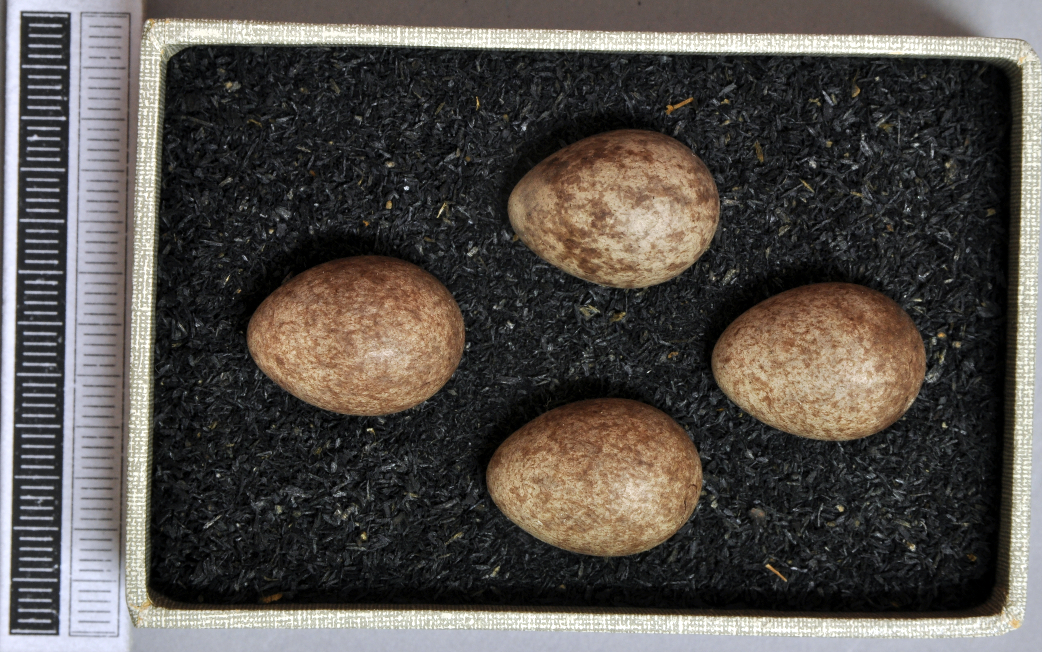 Meadow pipit Anthus pratensis , egg, Coll. Museum Wiesbaden